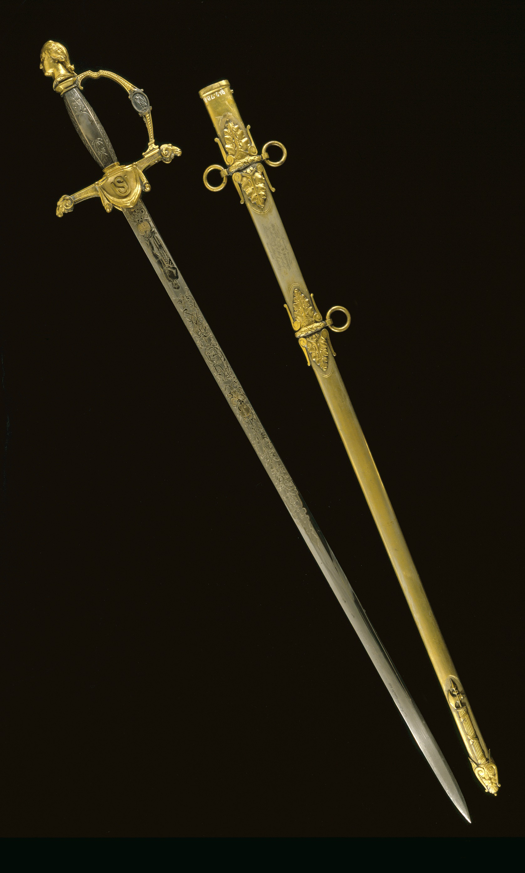 A model 1860 staff and field officer's sword presented to Brig. Gen. John D. Stevenson by the Officers of the 7th Regt. Missouri Volunteer Infantry in 1863.Title: Sword Presented to Brig. Gen. John Dunlap Stevenson